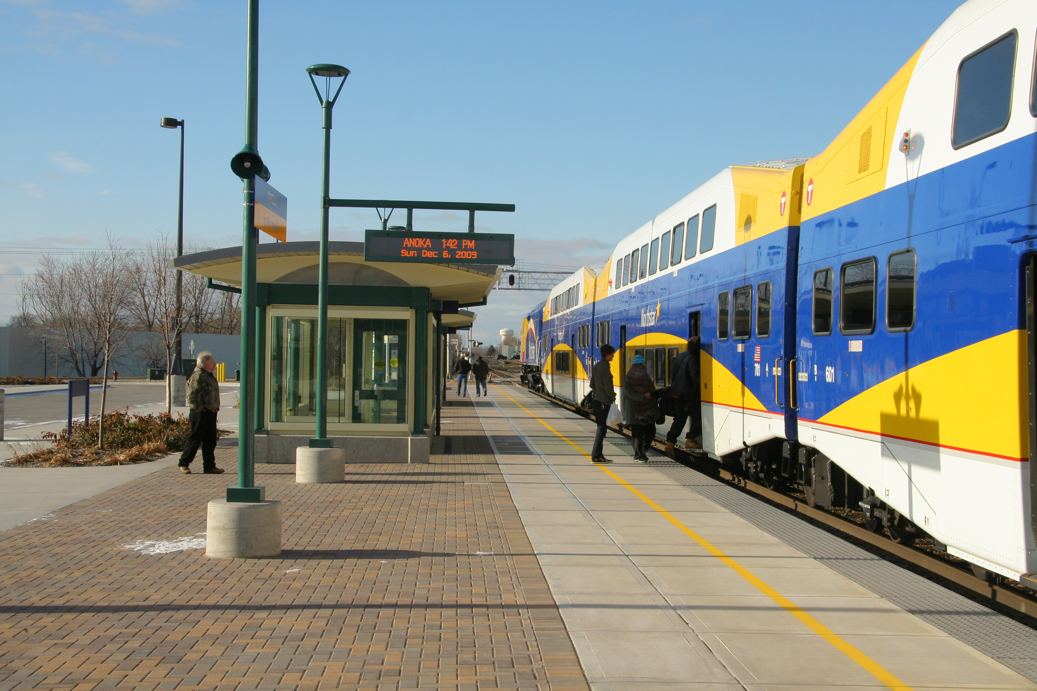 Southbound platform of the Northstar Commuter Rail stop at Anoka (Metro Transit station) (Anoka, Minnesota)